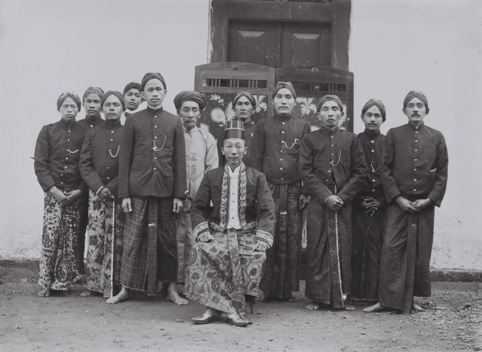 Portrait of the Regent of Blora, Raden Tumenggung Ario Said, with his civil servants.